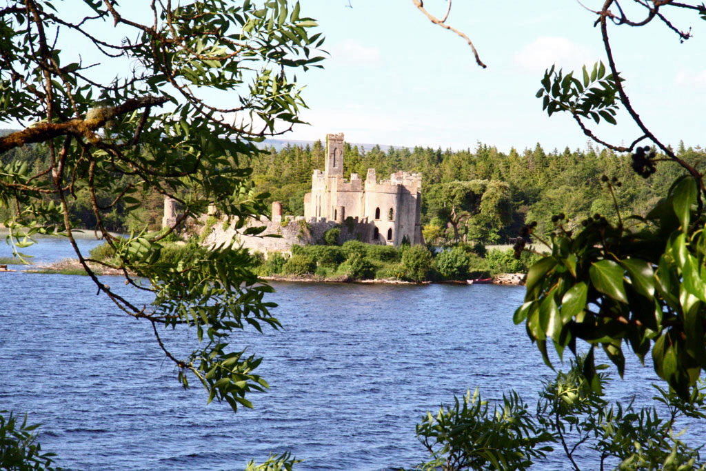 Lough Key Forest Park, Boyle, County Roscommon, Ireland